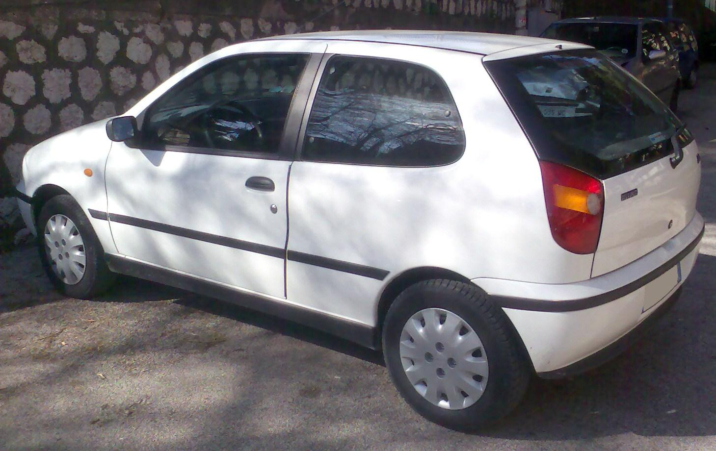 Fiat Palio